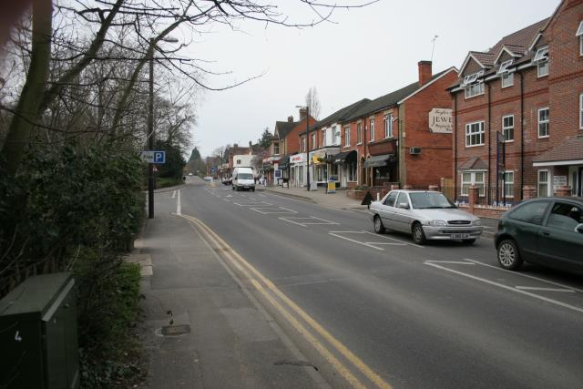 Crowthorne, Berks. Crowthorne old and new. The shops in Duke's Ride near Crowthorne Station, which have been there for many years, and the new flats on the right side of the picture which blend in well with the older buildings.